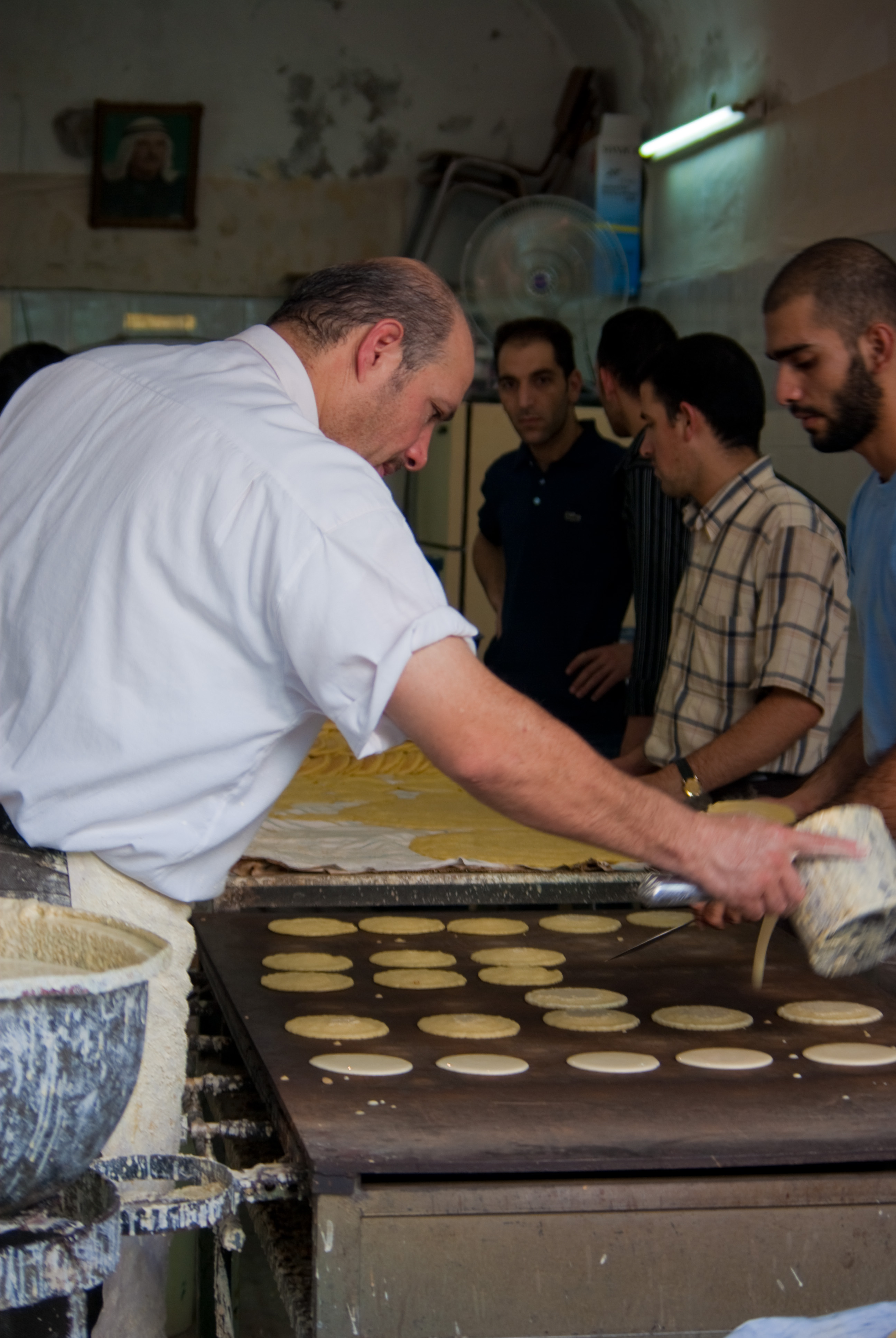 Hebron